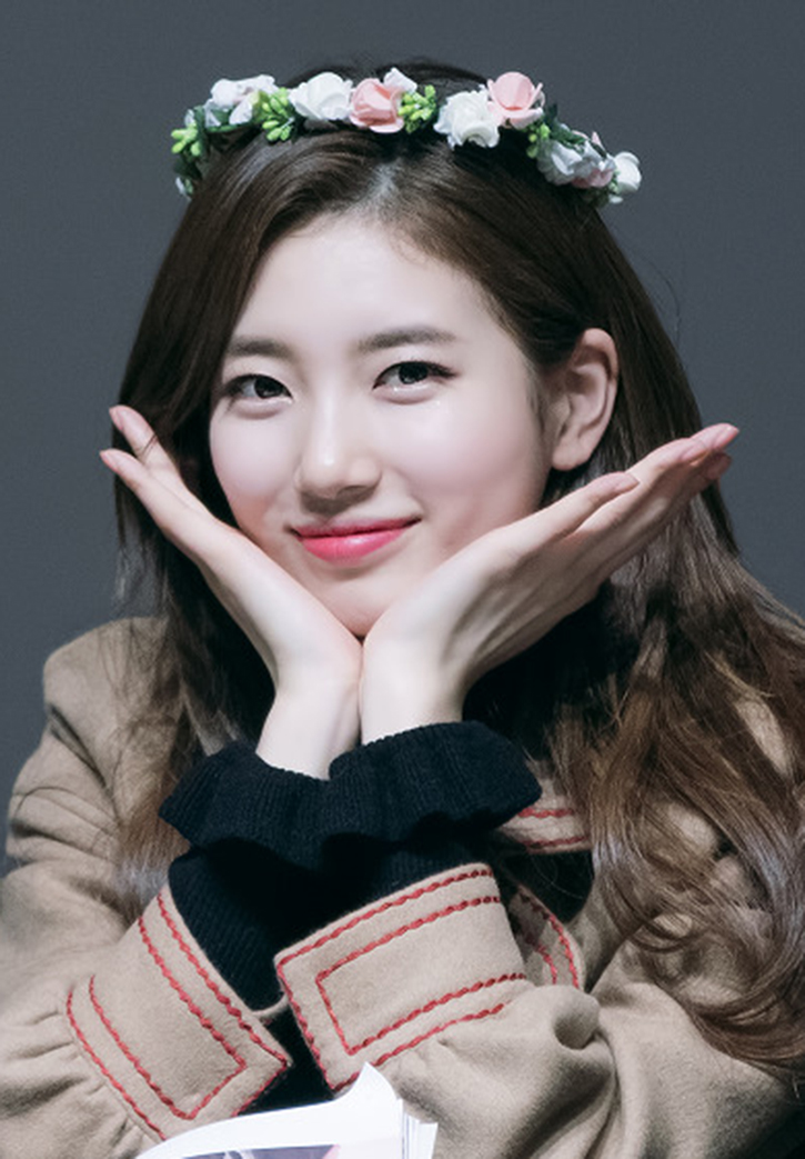 Suzy Bae at fansigning on February 3, 2018.